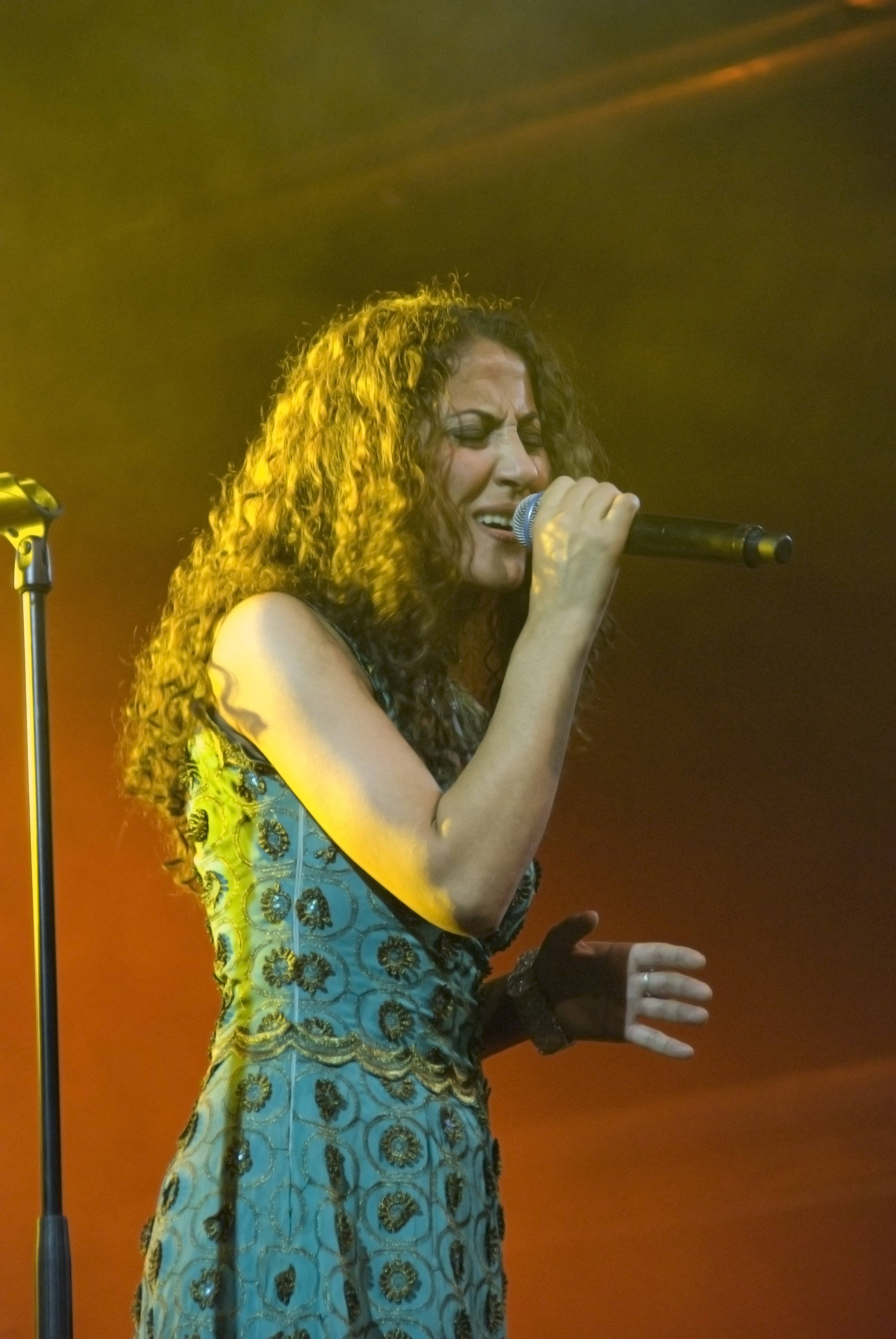 Aynur, Turkish singer of the Kurdish minority. Impressive live!